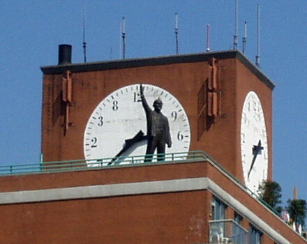 Statue of Lenin atop "Red Square" luxury apartments in New York City's East Village Sculptor: Yuri Gerasimov | Installed on Building: 1994